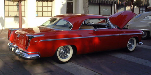 en:1955 Chrysler C-300. Photo by User:Morven at the weekly Garden Grove, California car show on Friday June 4, en:2004. nl:Afbeelding:Chrysler C-300.jpg